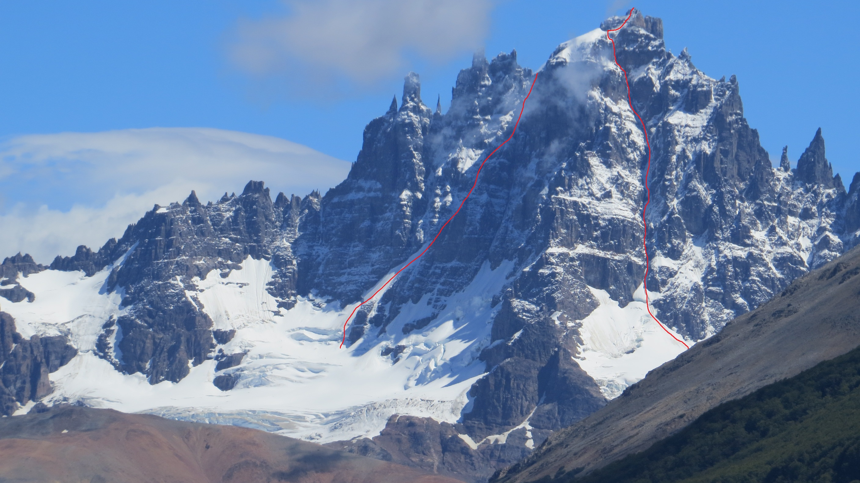 Cerro Castillo, Aysén left Italian route, right Supercouloire foto Felipe Alarcon